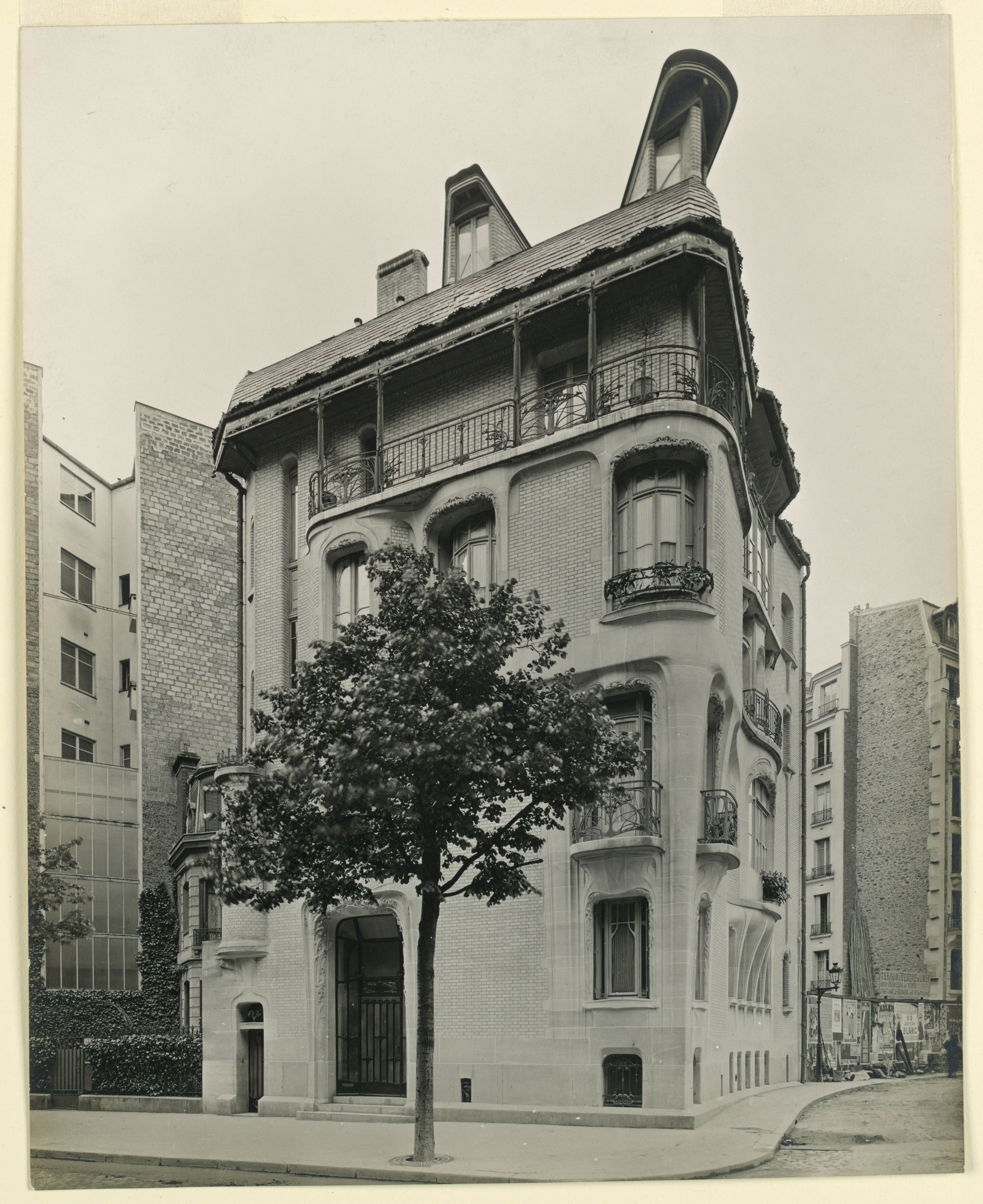 Photograph of the exterior facade of Hector Guimard's house, a four story dwelling situated at the corner of Rue Mozart in Paris. Constructed of brick with limestone trim and cast bronze balconies.